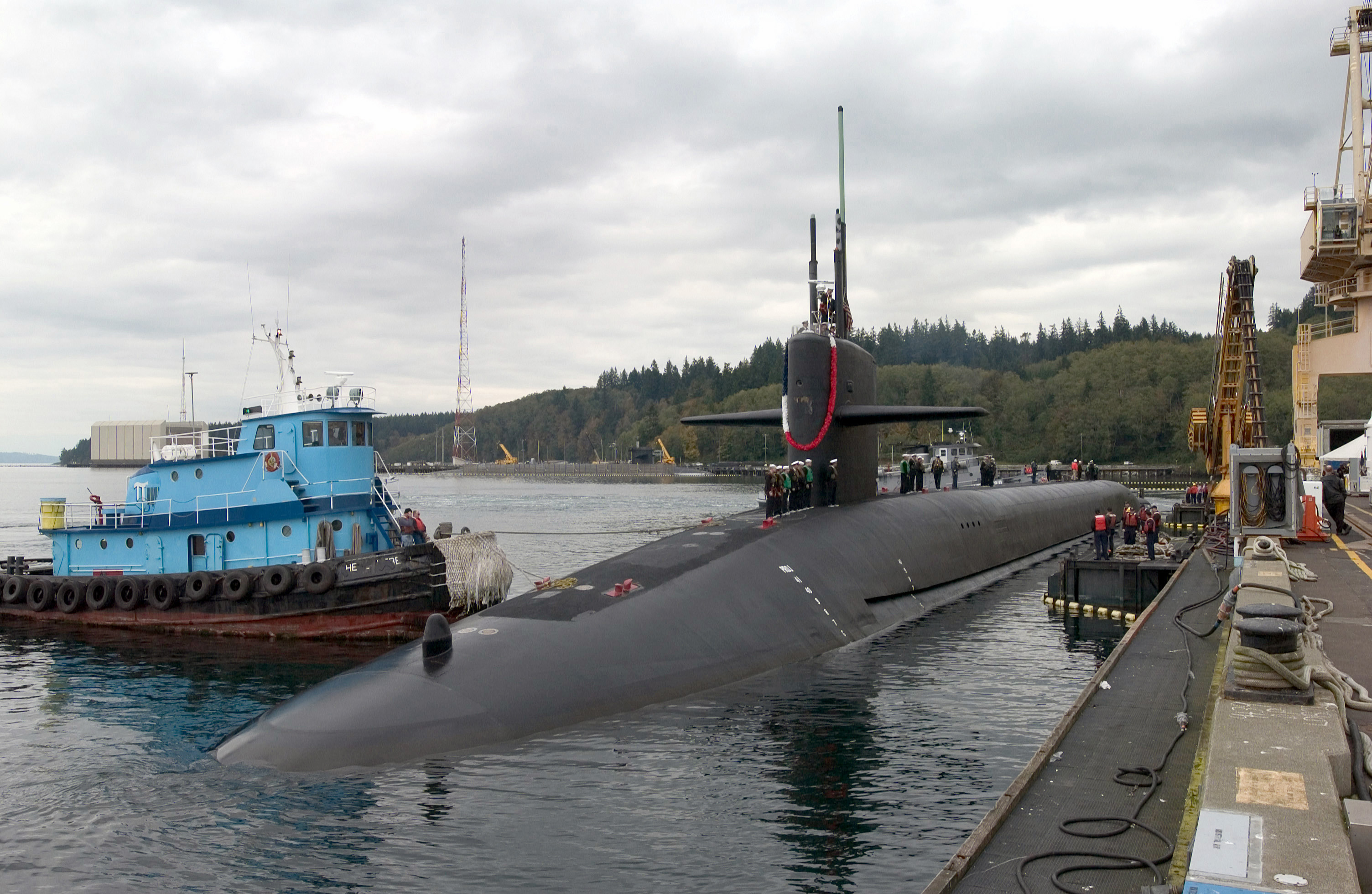 A starboard bow view of the US Navy (USN) OHIO CLASS: Strategic Missile Submarine, USS NEBRASKA (SSBN 739), showing Sailors manning the rails as the ship is assisted by a commercial tugboat, while mooring at its new homeport for the first time at the Delta Pier located at Naval Base Kitsap Bangor, Washington (WA).